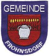 Coat of arms of Frohnsdorf near Altenburg/Thuringia